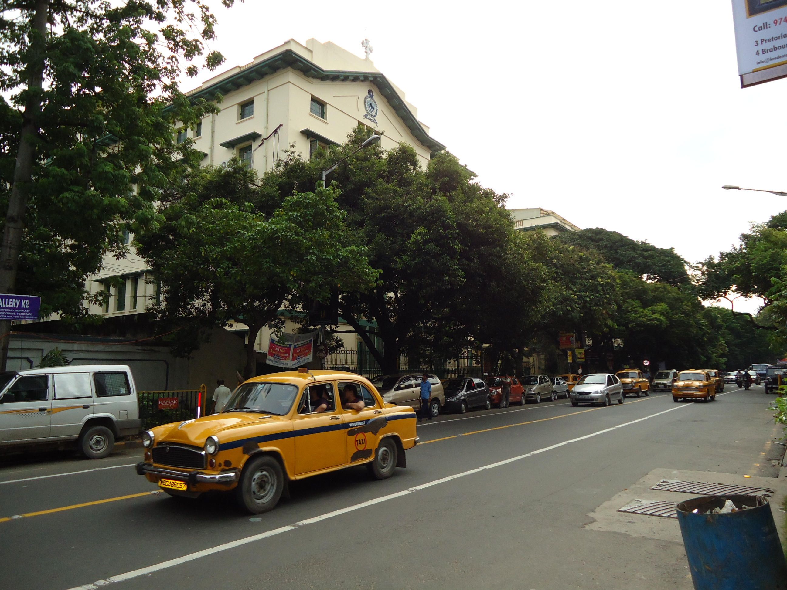 St Xaviers College, Park Street